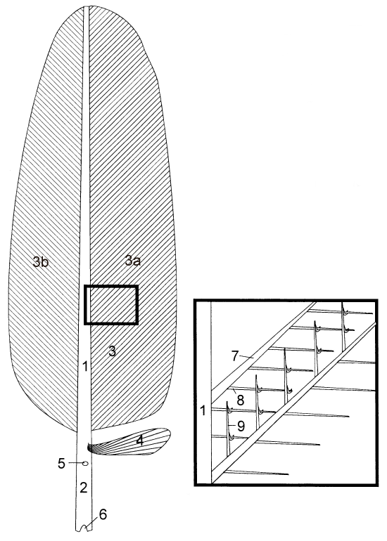 schematic drawing of a contour feather (3a and 3b are mistakenly exchanged in the drawing !!!)